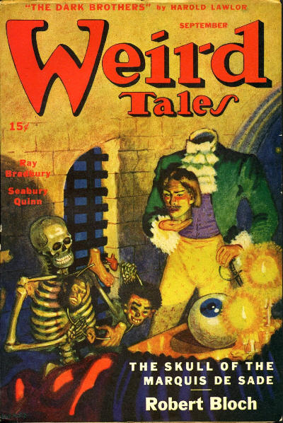 Cover of the pulp magazine Weird Tales (September 1945, vol. 39, no. 1) featuring The Skull of the Marquis de Sade by Robert Bloch. Cover art by Pete Kuhlhoff.